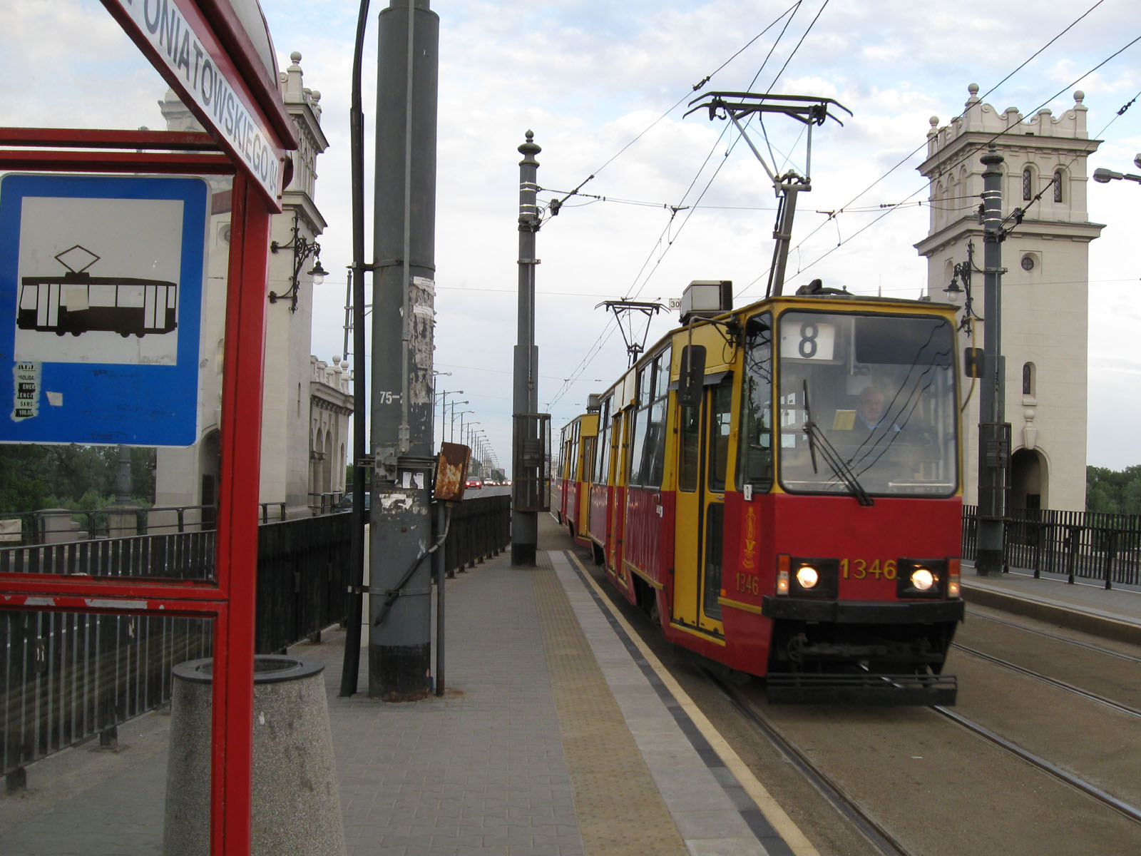 Tram in Warsaw, Poland